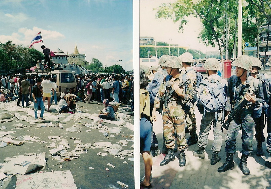 Street protests in Bangkok, Thailand, May 1992, protesting the Suchinda government. They turned violent. By Ian Lamont